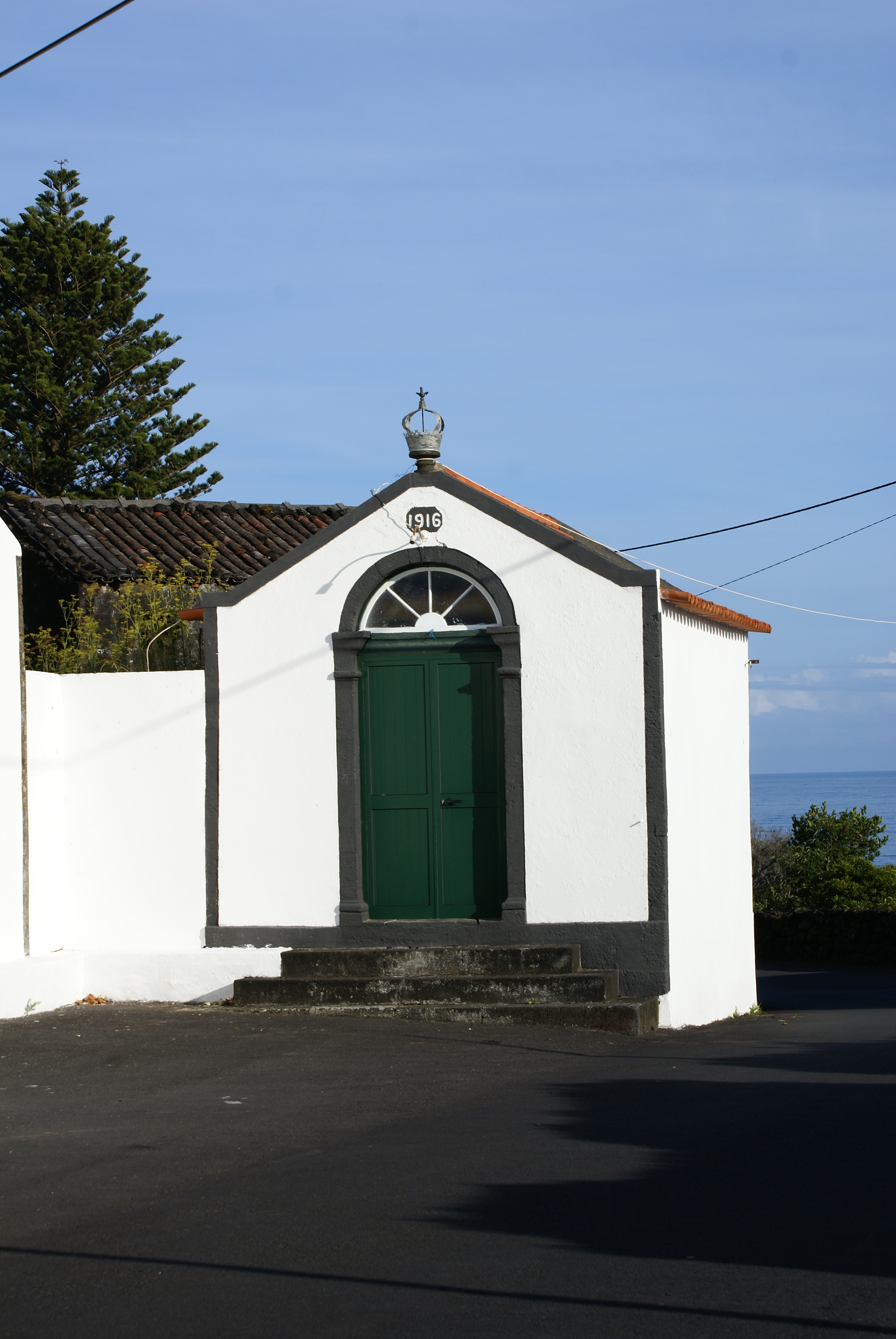 Império do Espírito Santo de Santo António, concelho de São Roque do Pico, ilha do Pico, Açores, Portugal